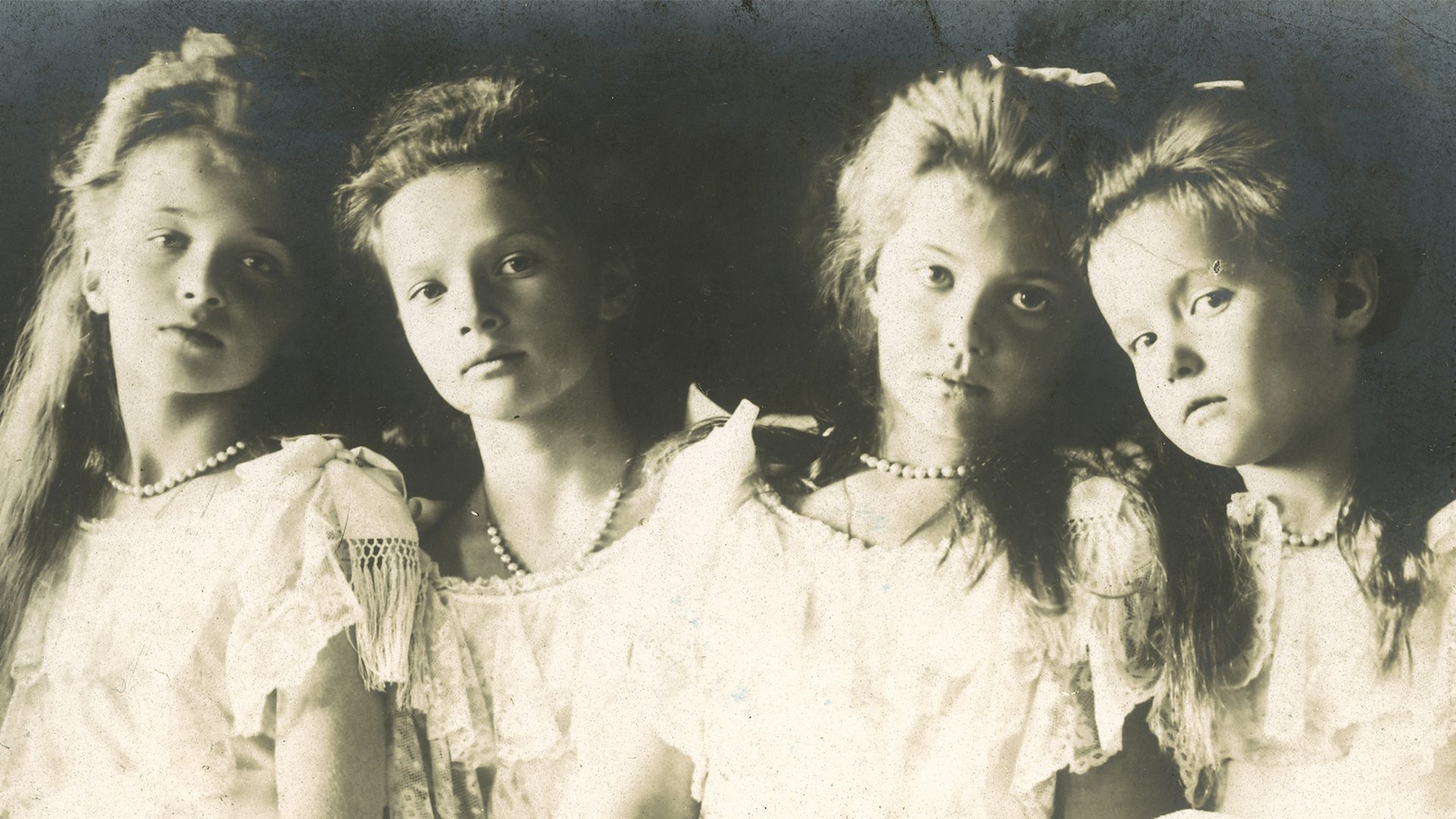 This photograph of Grand Duchesses Olga, Tatiana, Maria, and Anastasia Nikolaevna of Russia in 1906 appears to originate from a Russian postcard that was published prior to World War I. Августѣйшія Дочери ИХЪ ИПЕРАТОРСКИХЪ [sic] ВЕЛИЧЕСТВЪ Ольга Татіана Марія Анастасія The Most August Daughters of THEIR IMPERIAL MAJESTIES Olga Tatiana Maria Anastasia